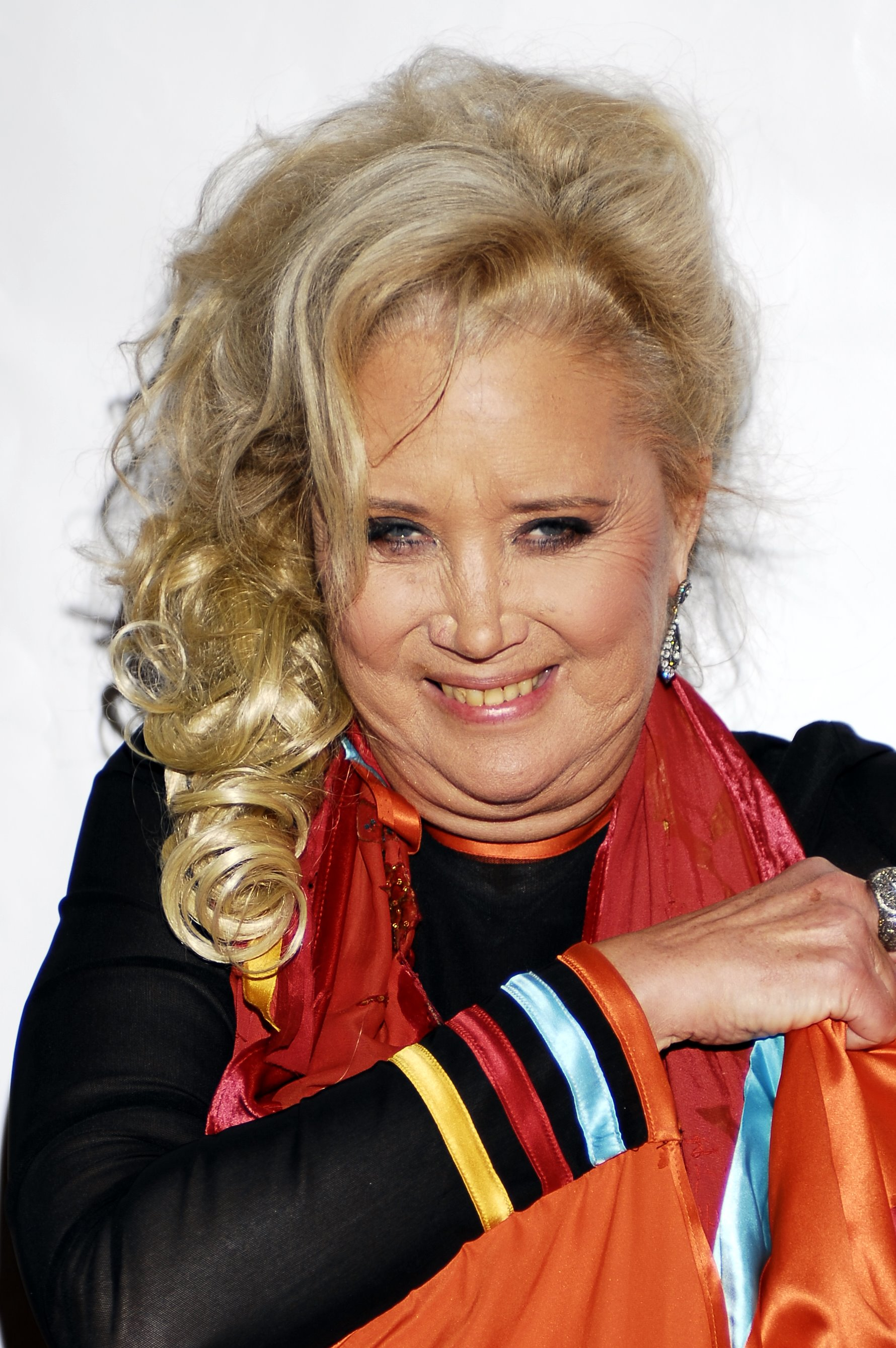 Sally Kirkland at the 79th Annual Academy Awards Children Uniting Nations/Billboard afterparty.